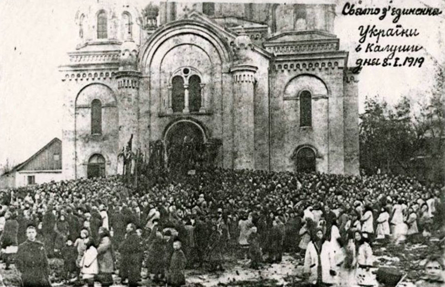 Celebration of the union of West Ukrainian People's Republic and the Ukrainian People's Republic 808.01.1919 in Kalush